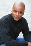 Keith Lee Grant, Founder and Artistic Director of the Harlem Repertory Theatre